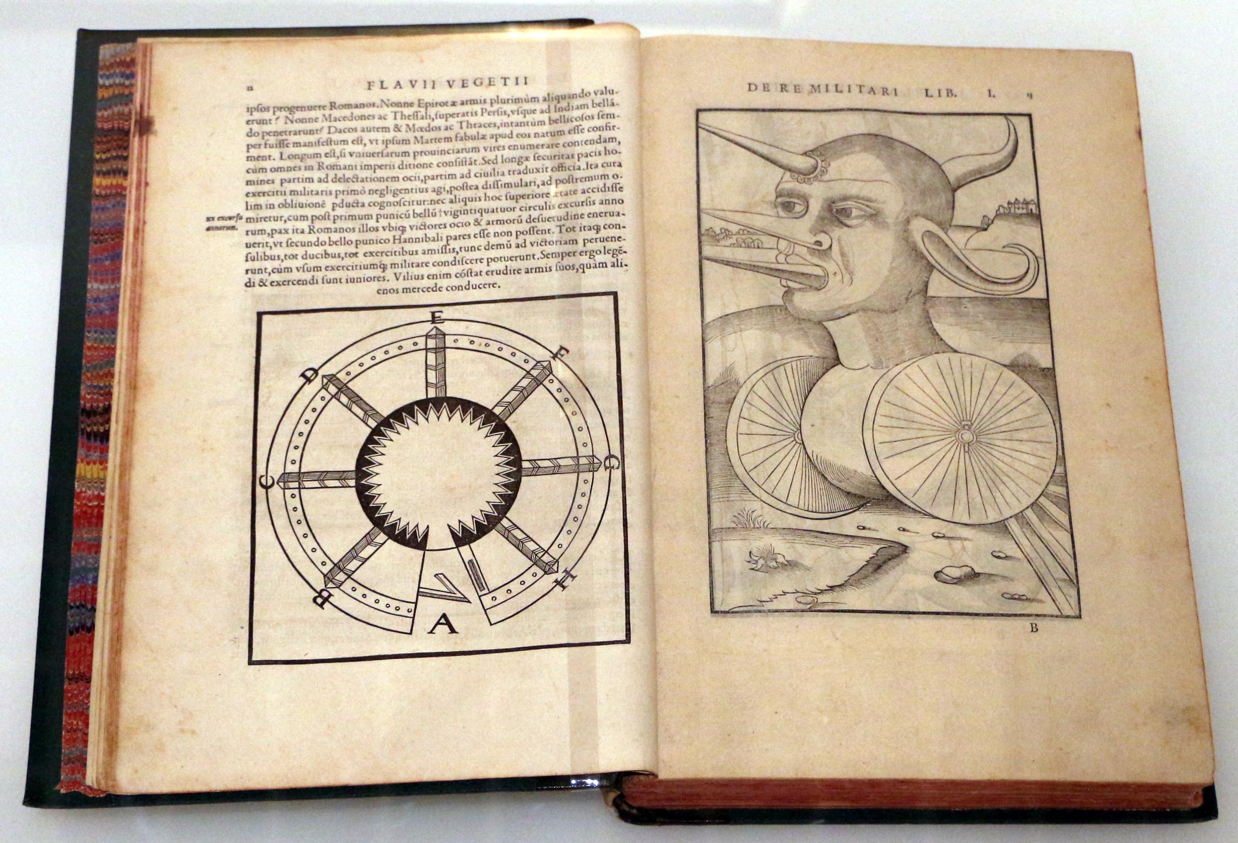 Prints in the Museu Nacional de Arte Antiga